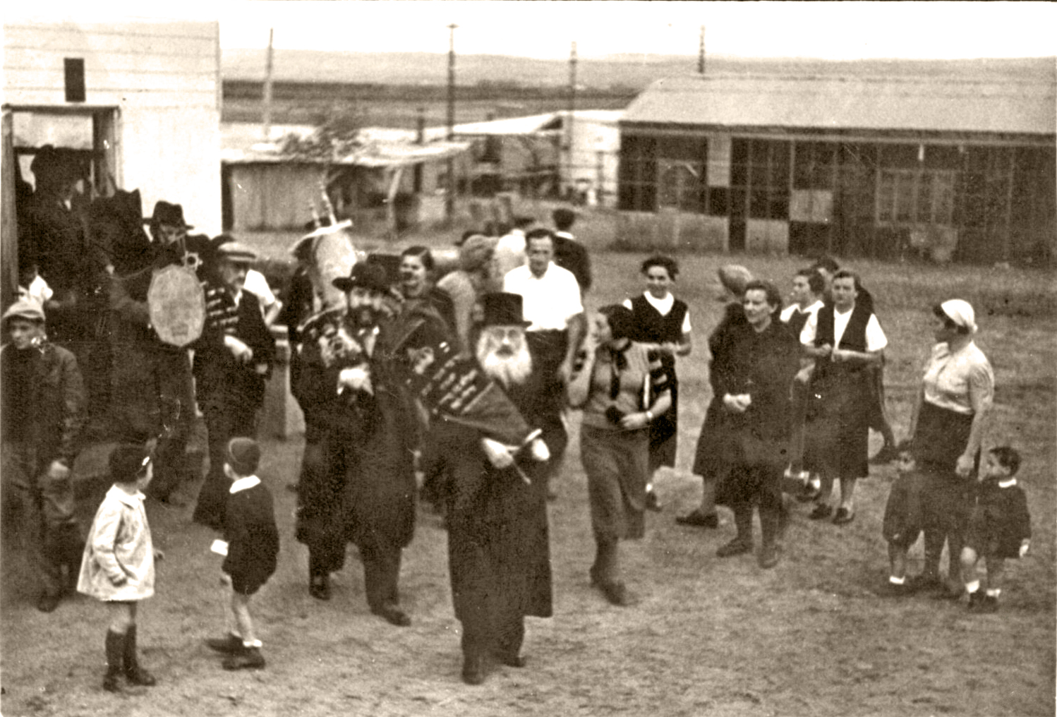 rodges, israel, petach-tikva, Settlements in Israel